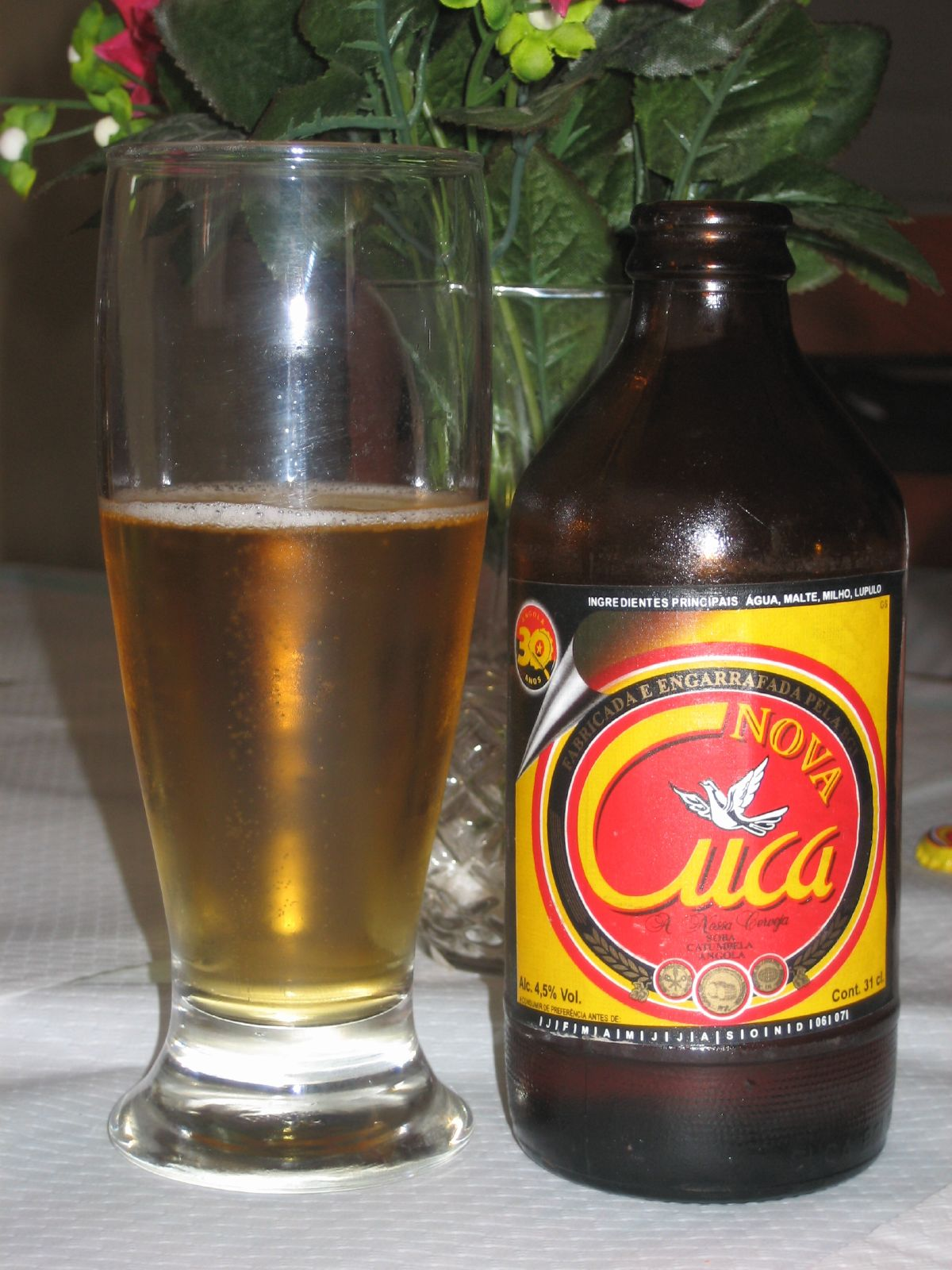 Cerveja Cuca, a picturesque name for one of the most popular beers in Angola!.